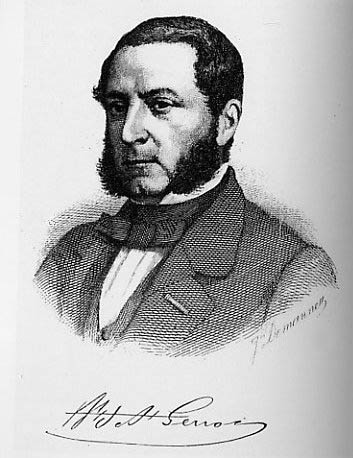 Portrait of Jules Ludger Dominique Ghislain baron de Saint-Genois des Mottes